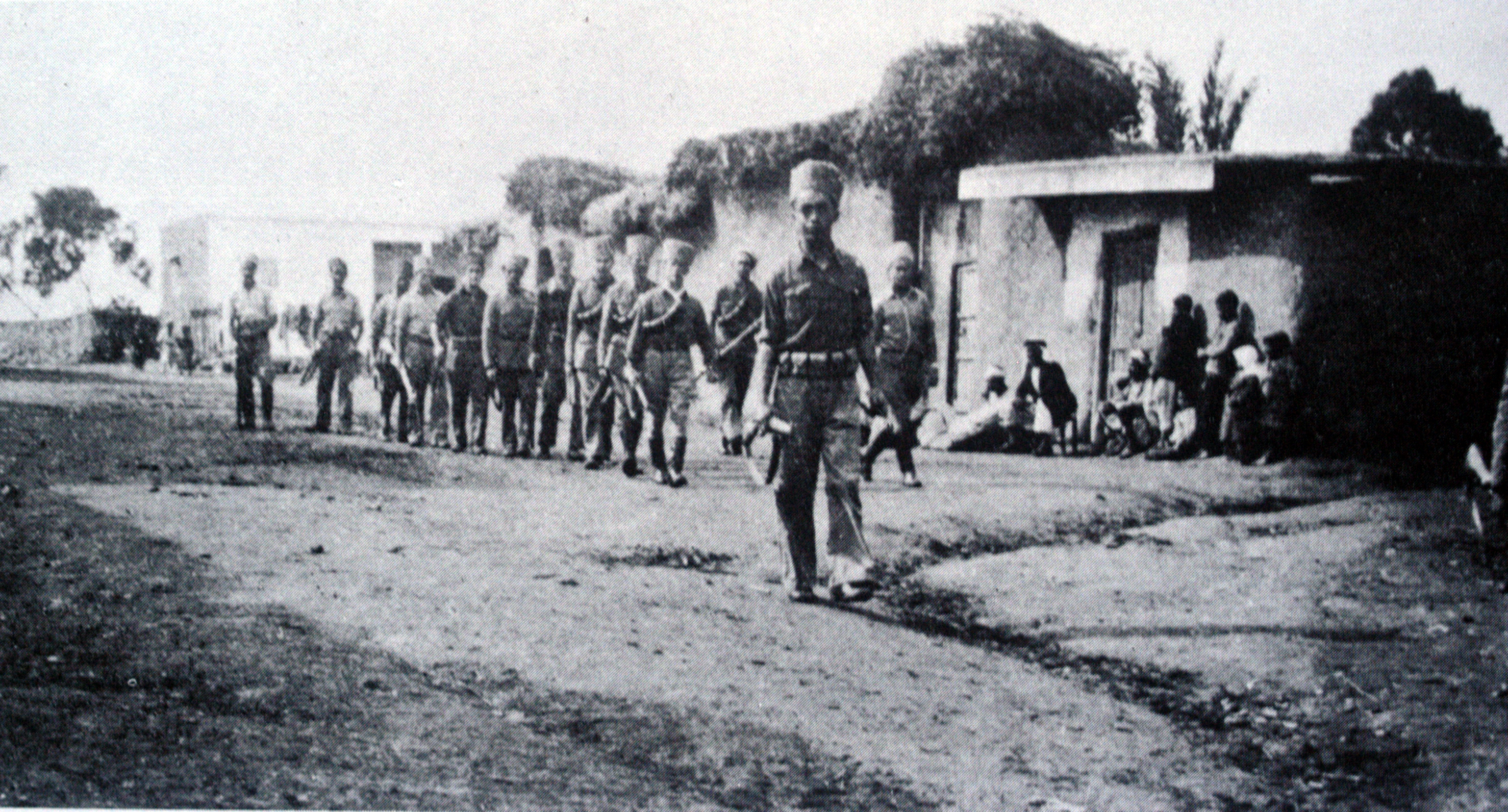 "A unit of Yitshaq Sadeh's Fosh (field companies) passes through the Arab village of Yasur, near Be'er Tuviya."